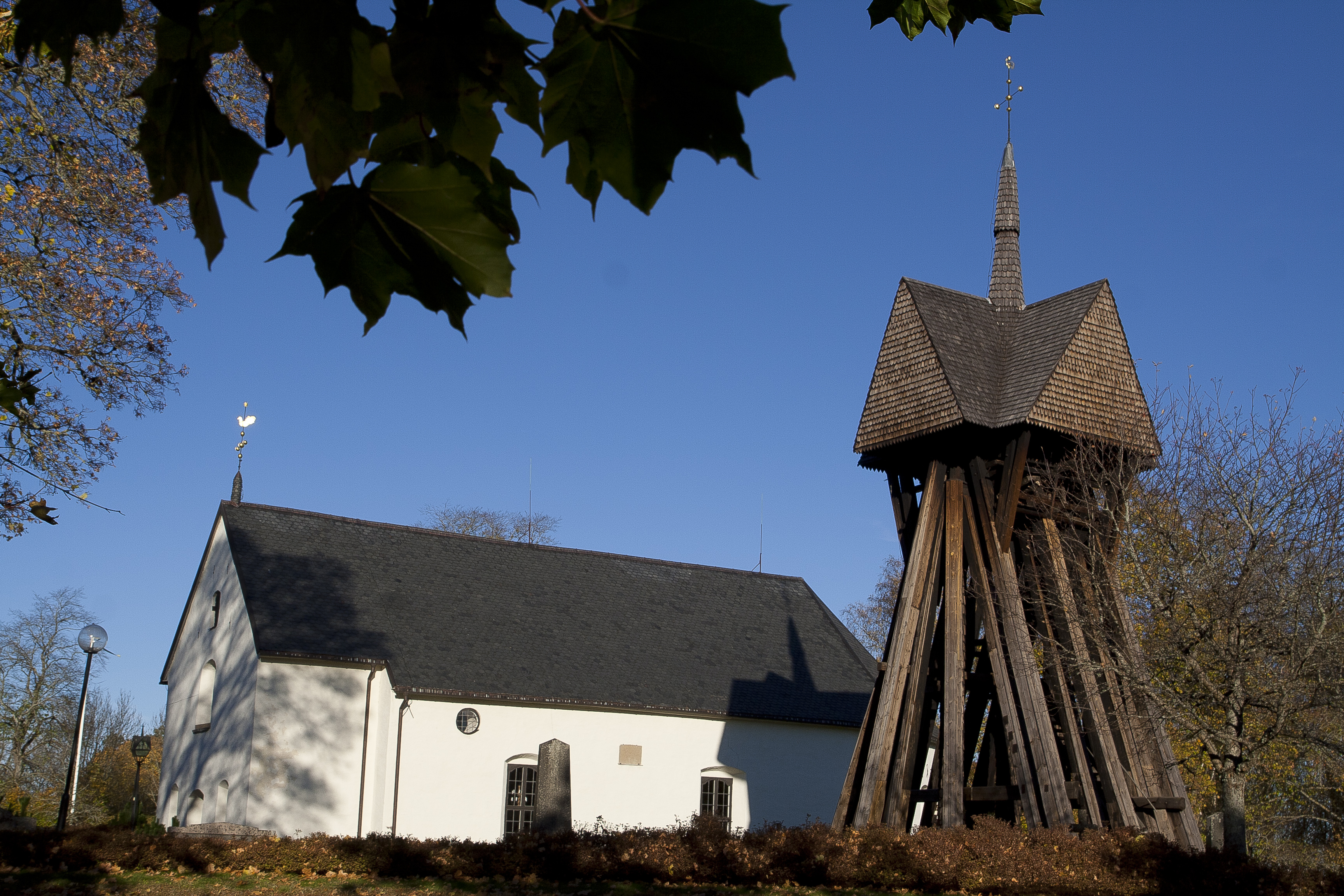 Kräcklinge church with bell tower, in Örebro County, Sweden. One autumn day, 2010